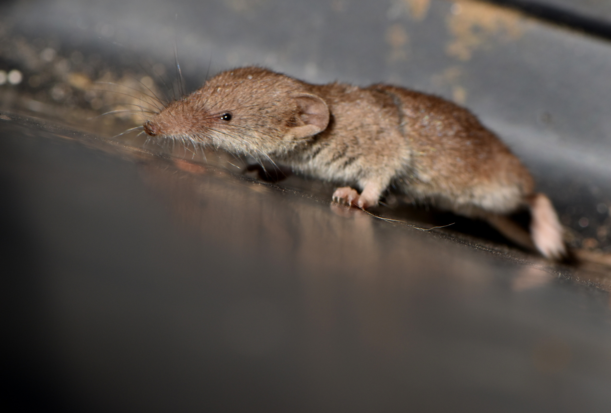 Greater White-toothed Shrew (Crocidura russula), Málaga, Spain.